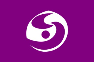 Flag of Shibukawa Gunma